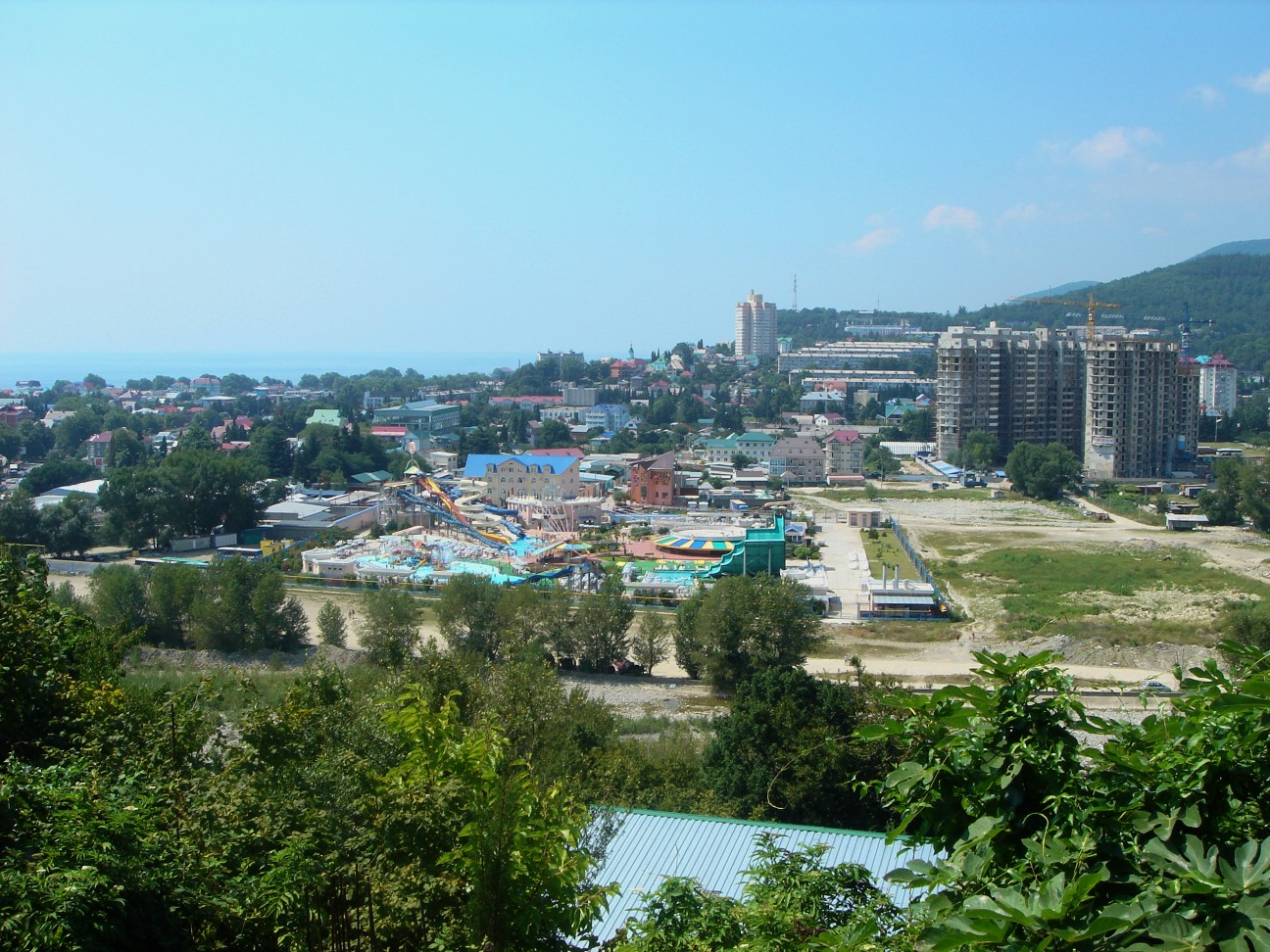 View of Lazarevskoe from mount. Вид Лазаревского с горы, внизу виден аквапарк Наутилус.